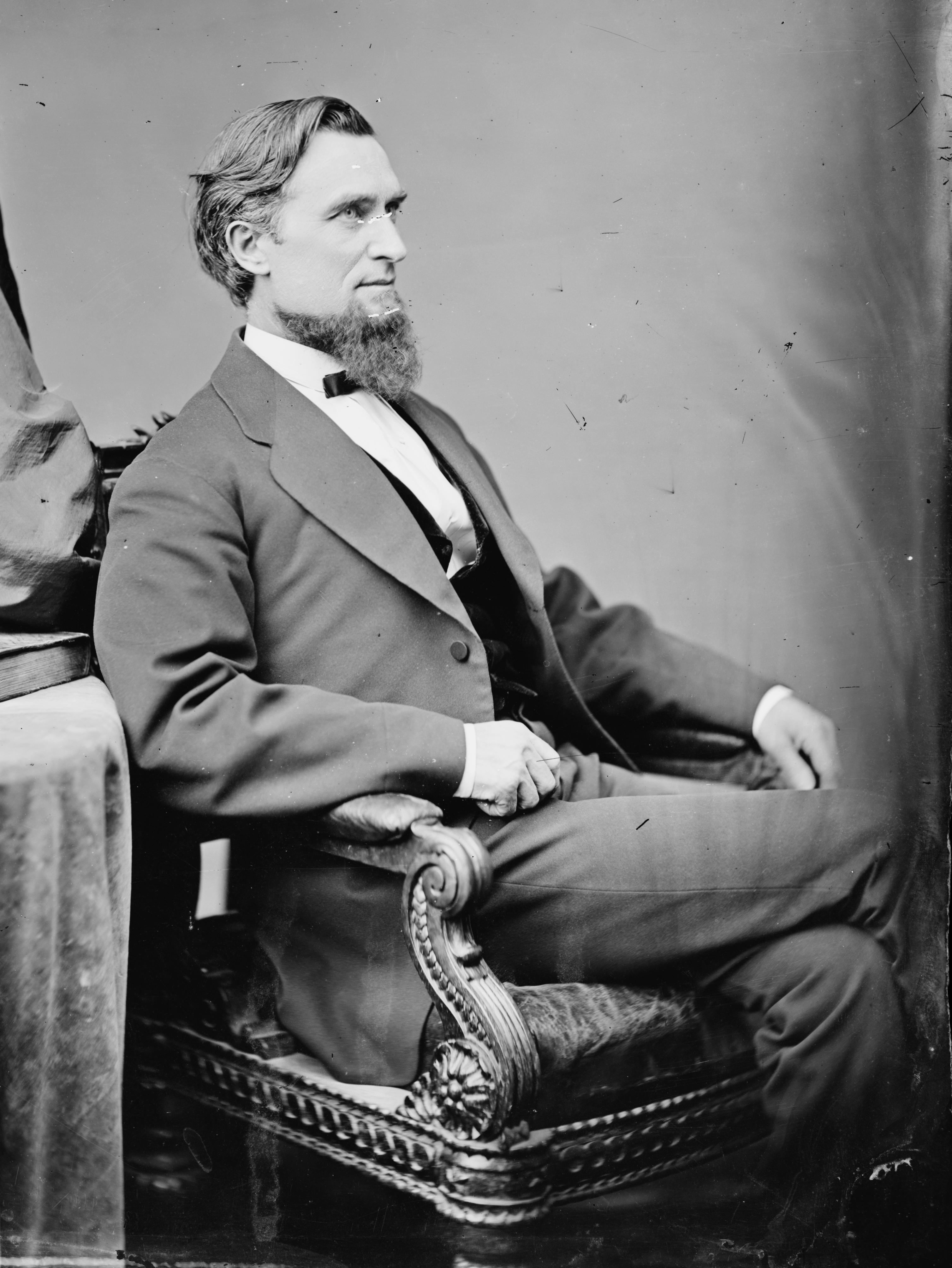 Calvin Willard Gilfillan. Library of Congress description: "Hon. Calvin Willard Gilfillan of PA"